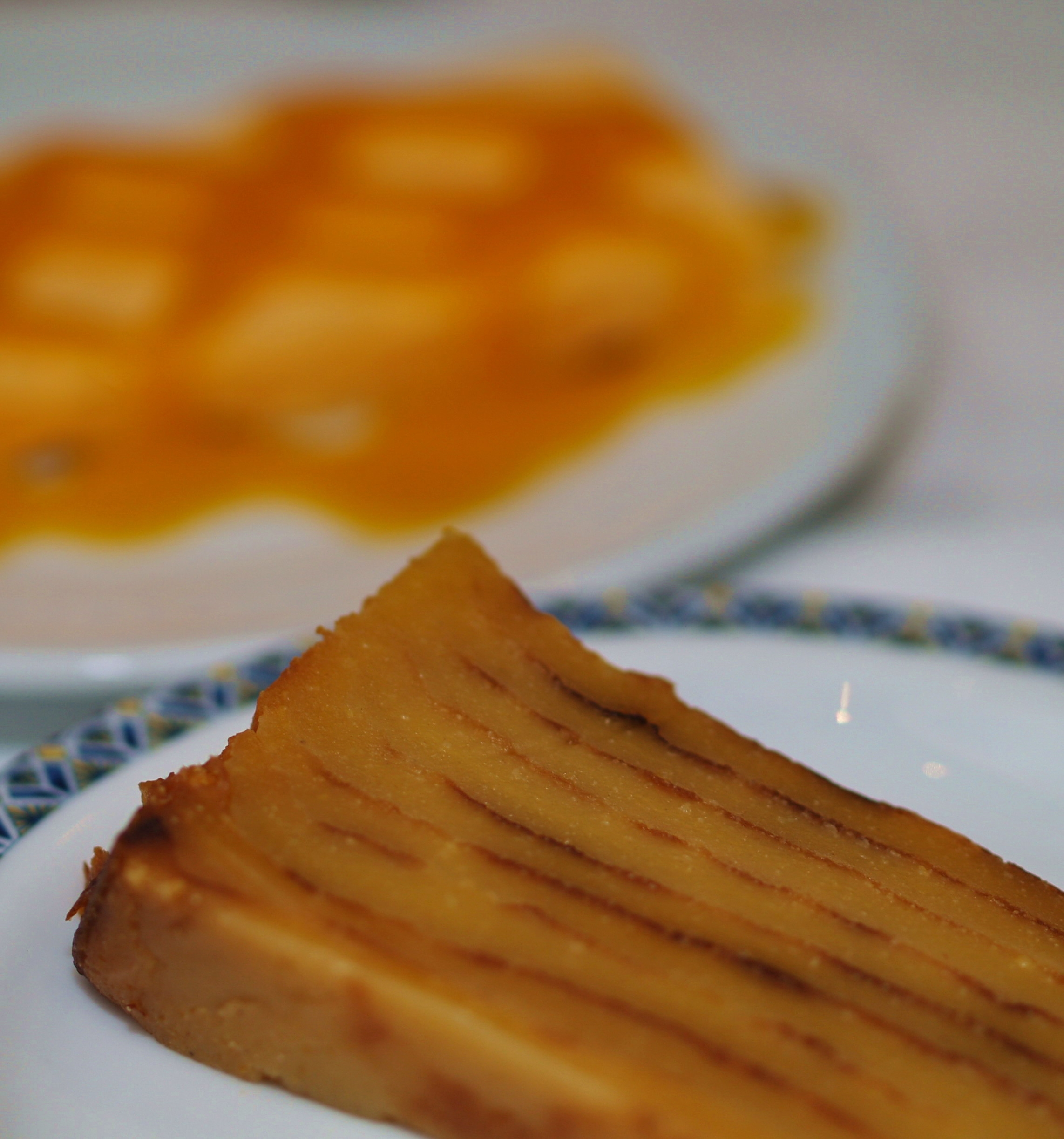 Bebinca, a typical goan dessert. The sample in the photo (taken in Lisbon, Portugal) has 9 layers.